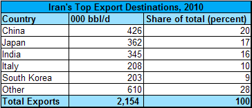 Iran's Top Export Destinations, 2010.